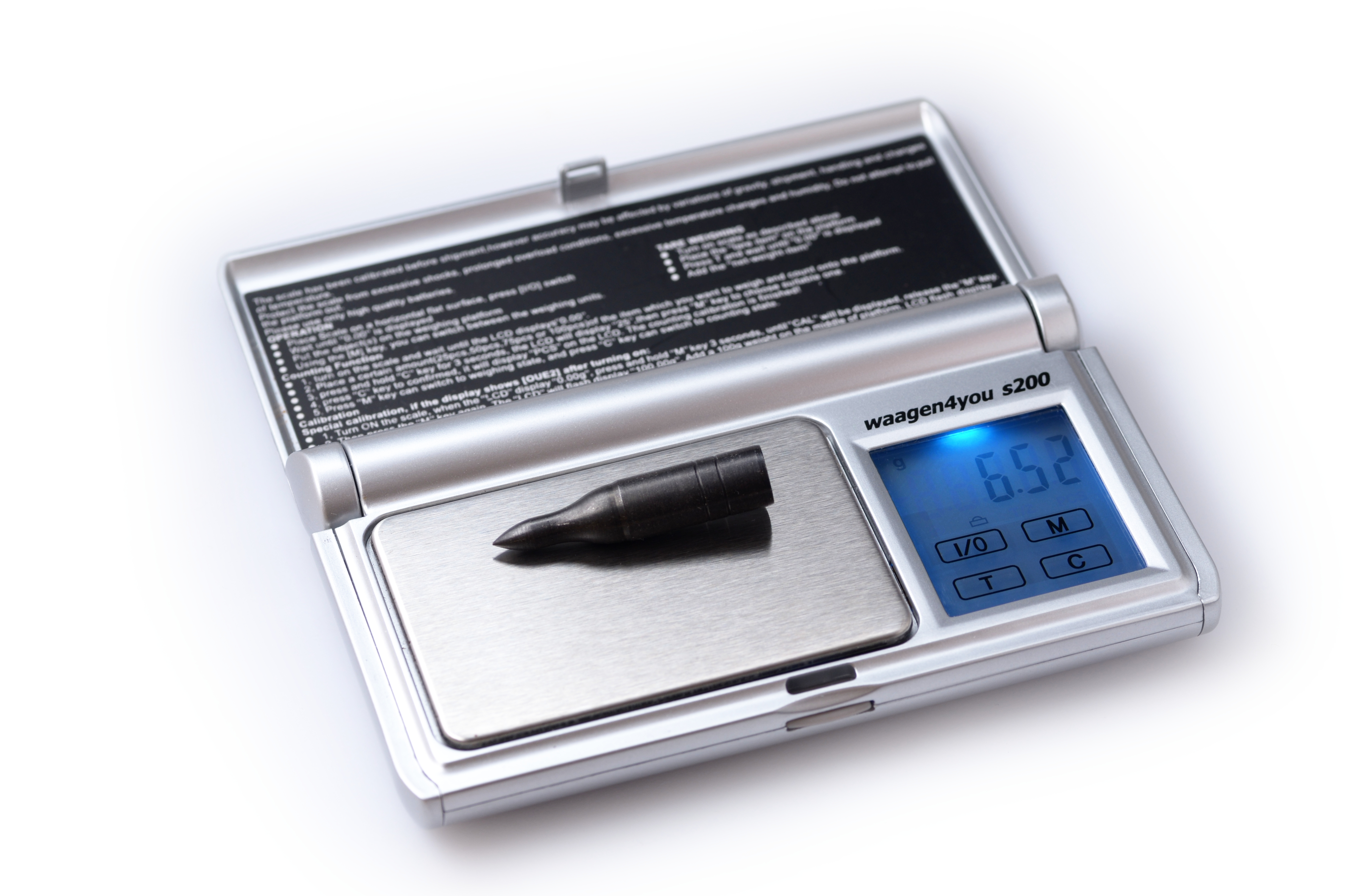 Scale weighing to 0.01 g. Here with an 100 grain arrow head; It is slightly heavier (100 grain would be 6.48 grams).